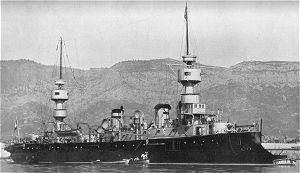 French armoured cruiser Amiral Charner